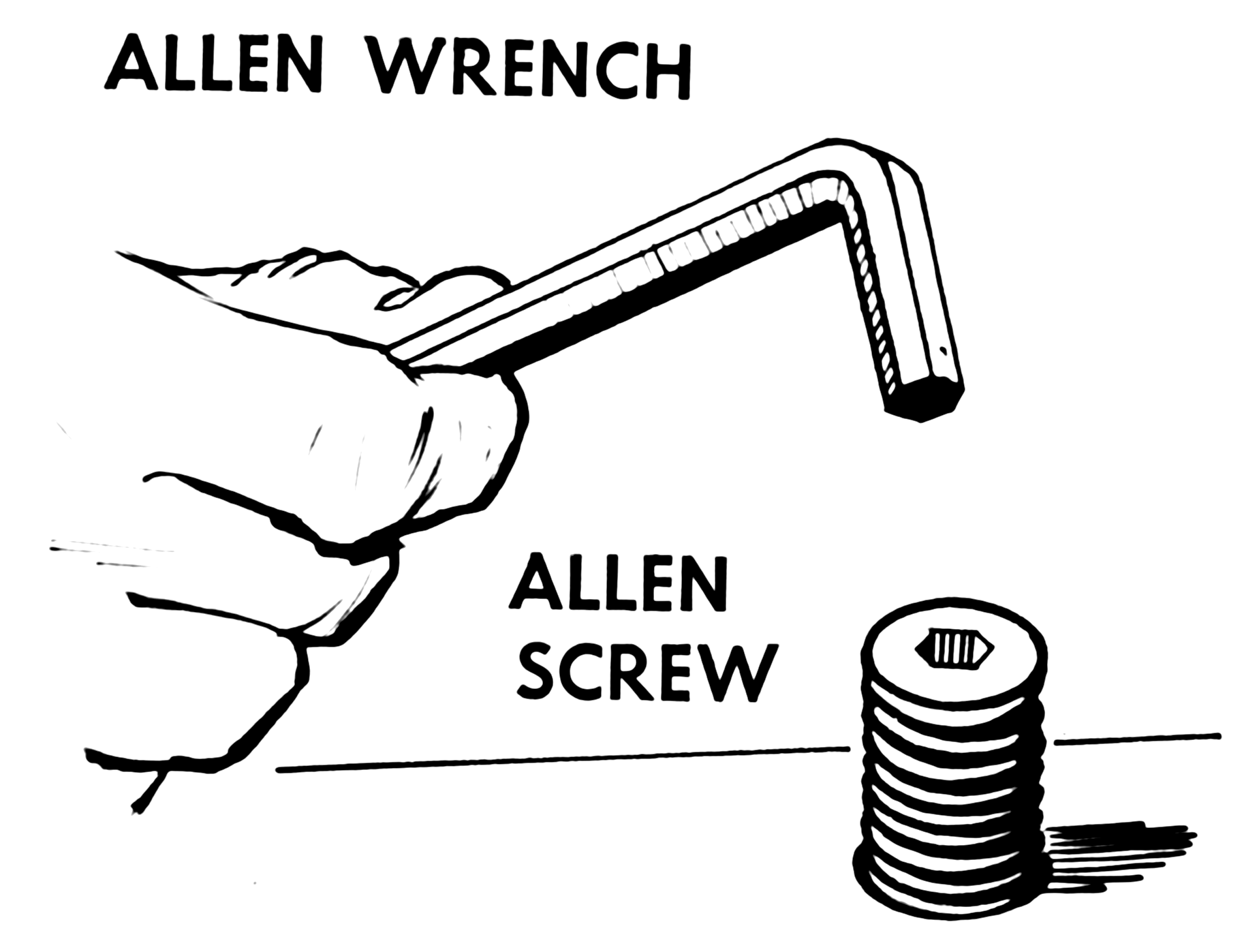 An illustration of an Allen (hex) wrench and screw.